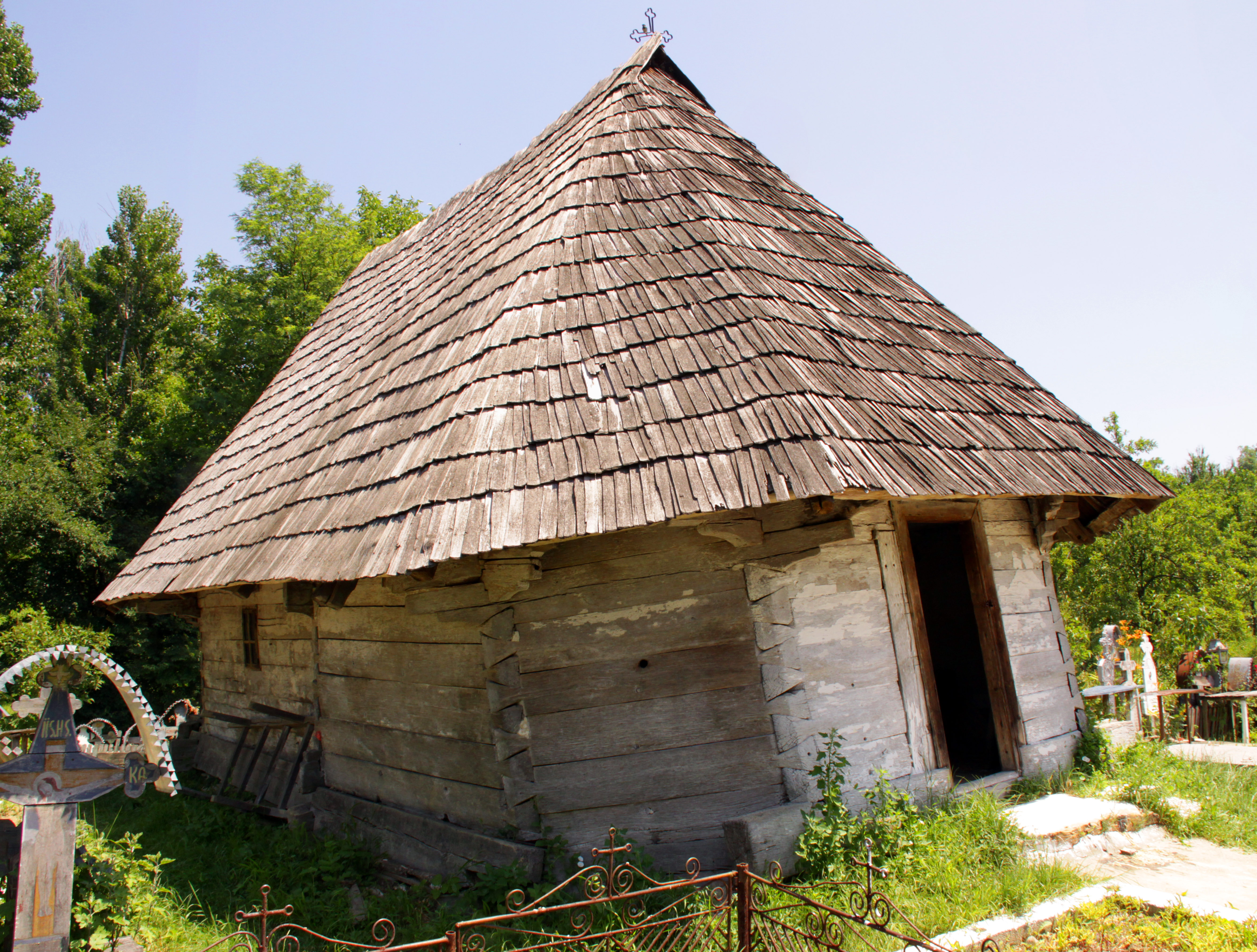 Pietrari, Vâlcea: The wooden church from Angheleşti-Cărpiniş, North-West.